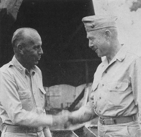 Rapp Brush and William Rupertus shaking hands.